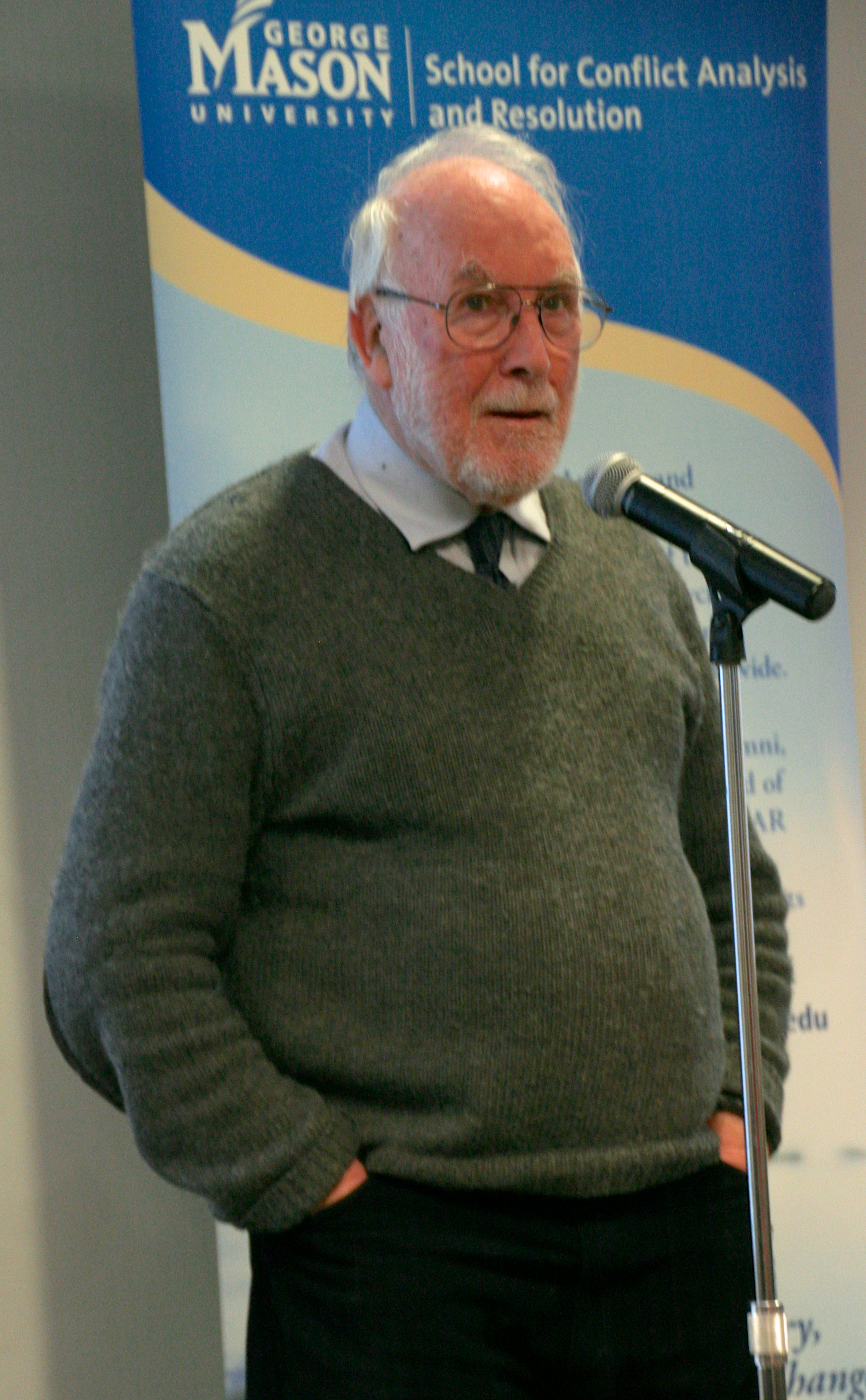 Dr. Mitchell speaking during the launch of his book, The Nature of Intractable Conflict: Resolution in the Twenty-First Century. Event held at the School for Conflict Analysis and Resolution at George Mason University.